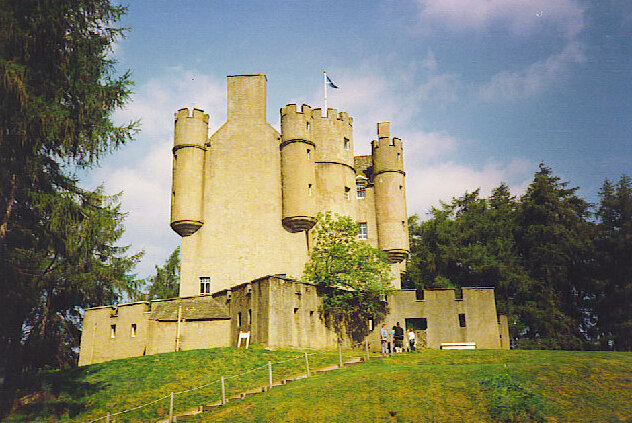 Braemar Castle.